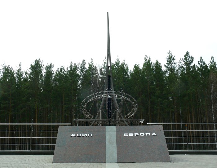 Border of Europe and Asia near Yekaterinburg (on the 17th km of the New Moscow road).